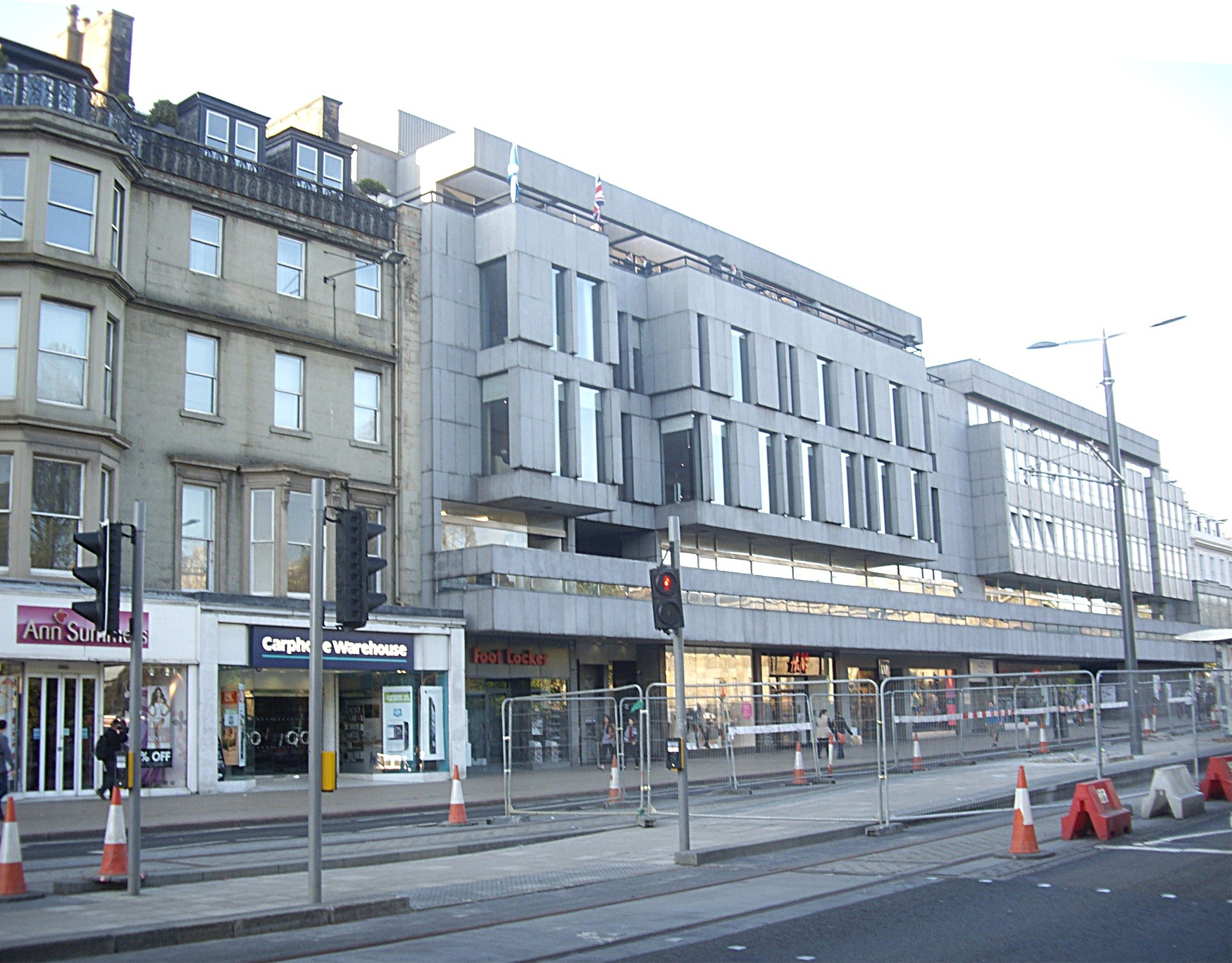 New Club, 86 Princes Street, Edinburgh